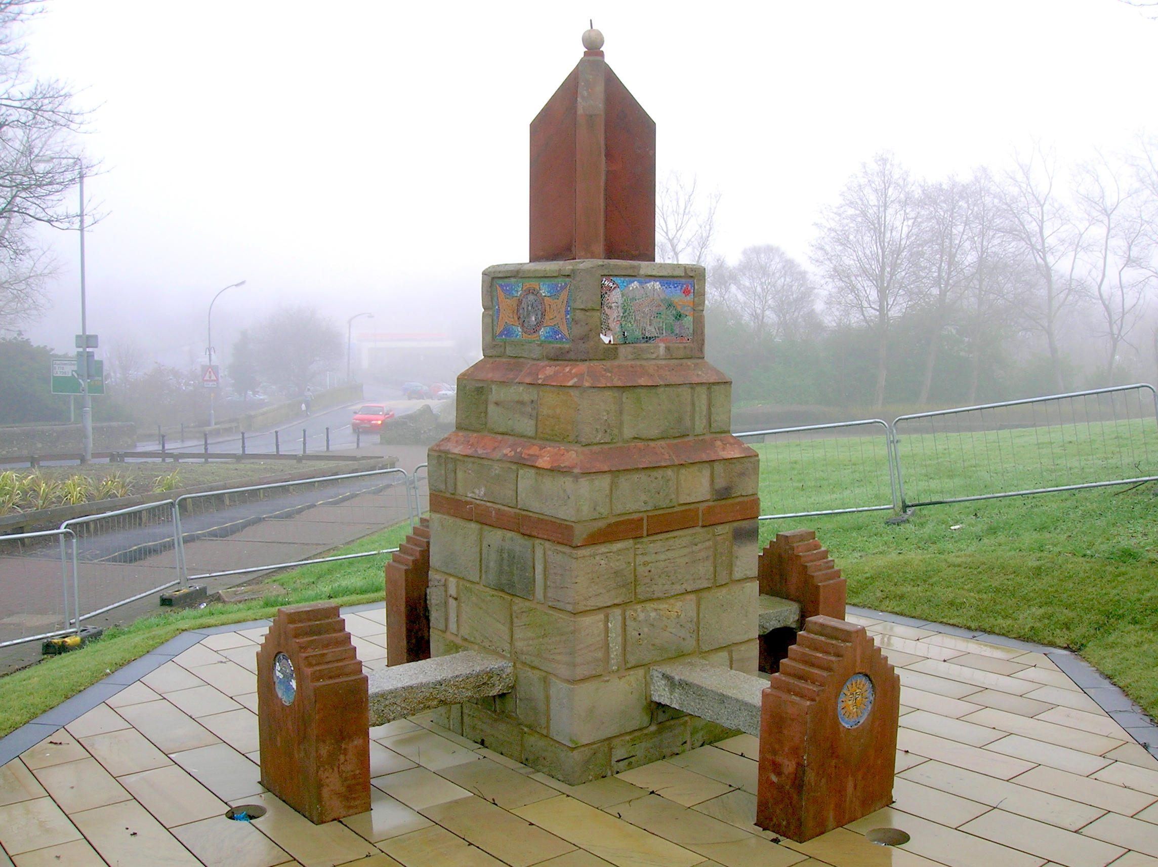 Robert Service Memorial, Kilwinning, North Ayrshire, Scotland